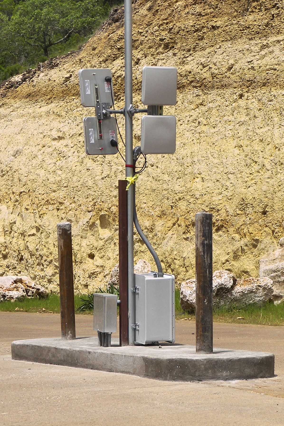 Radio-frequency identification antennas to track vehicles coming into and leaving a gated community. One antenna on each side transmits a signal to activate the passive RFID chip affixed to the vehicle and the other antenna receives the signal back with the encoded information from the chip. If the chip provides a valid number in the database of the controller located in the box at the base of the pole, the gate is opened.